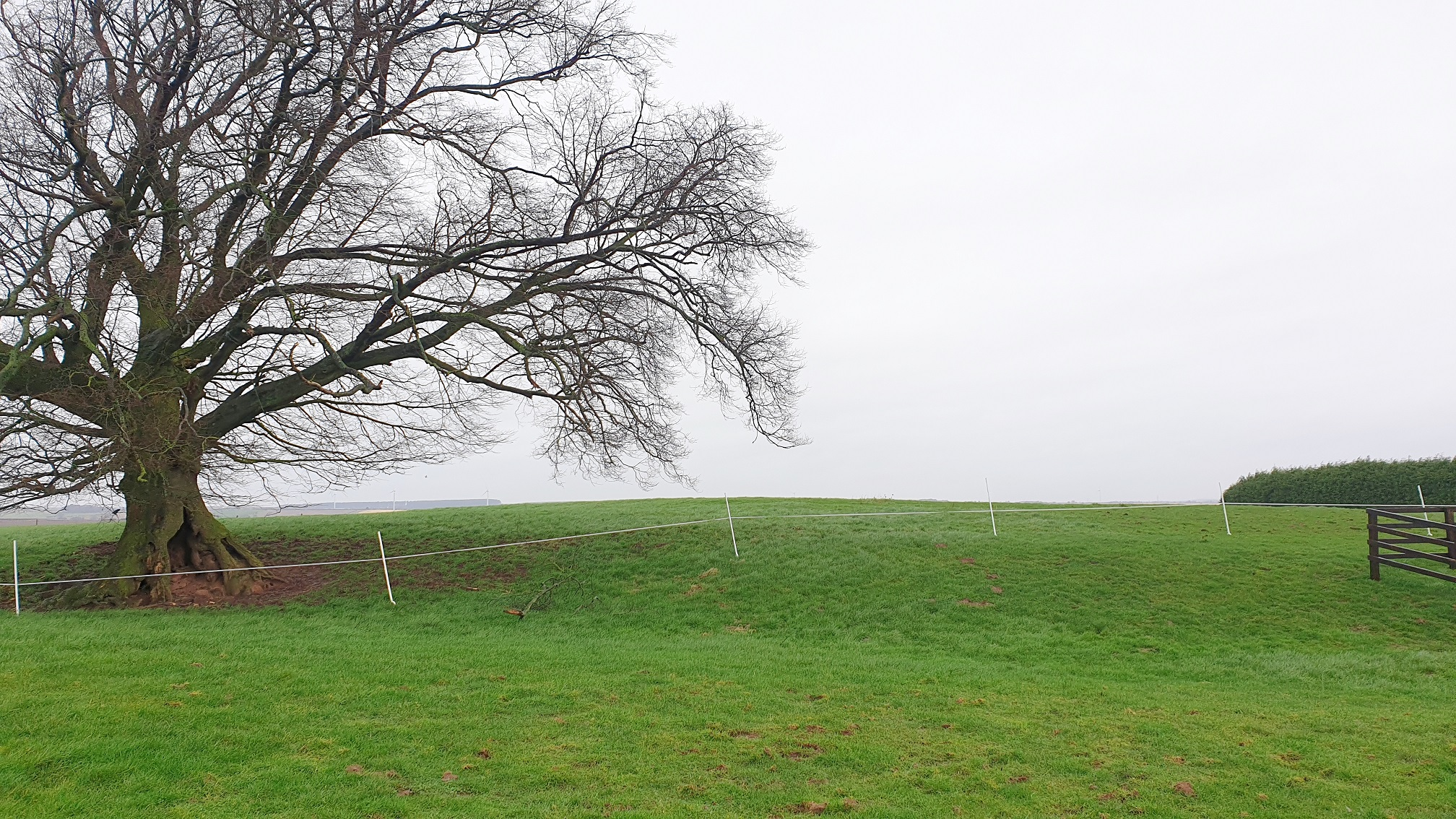 Combs Farm Camp Iron Age Hillfort near Farnsfield, Nottinghamshire